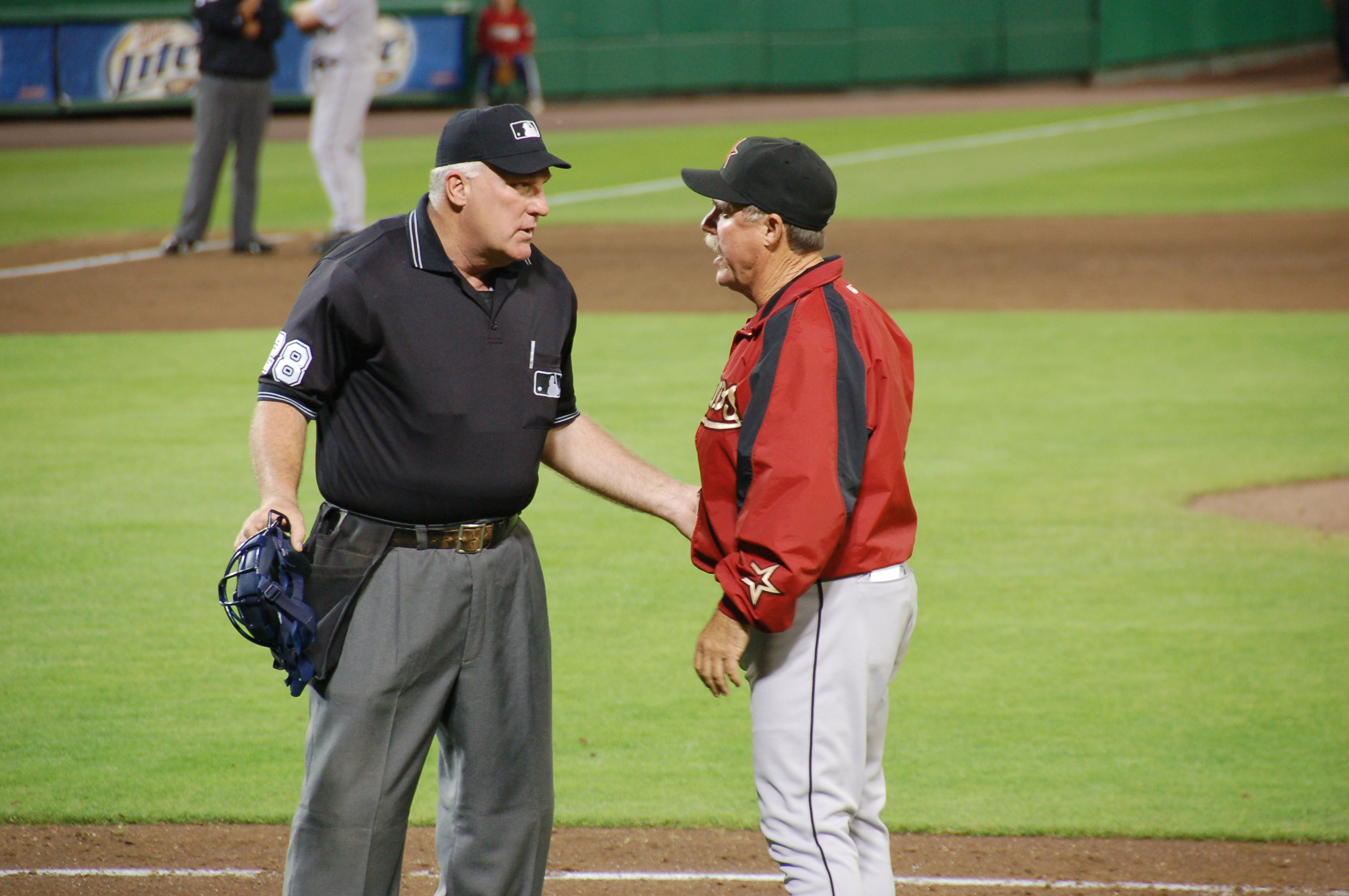 Photographer: Scott Ableman From Houston Astros manager Phil Garner complains after Frank Robinson convinces home plate umpire Larry Young to call a balk on Roy Oswalt, allowing the tying run to score for the Washington Nationals May 24, 2006